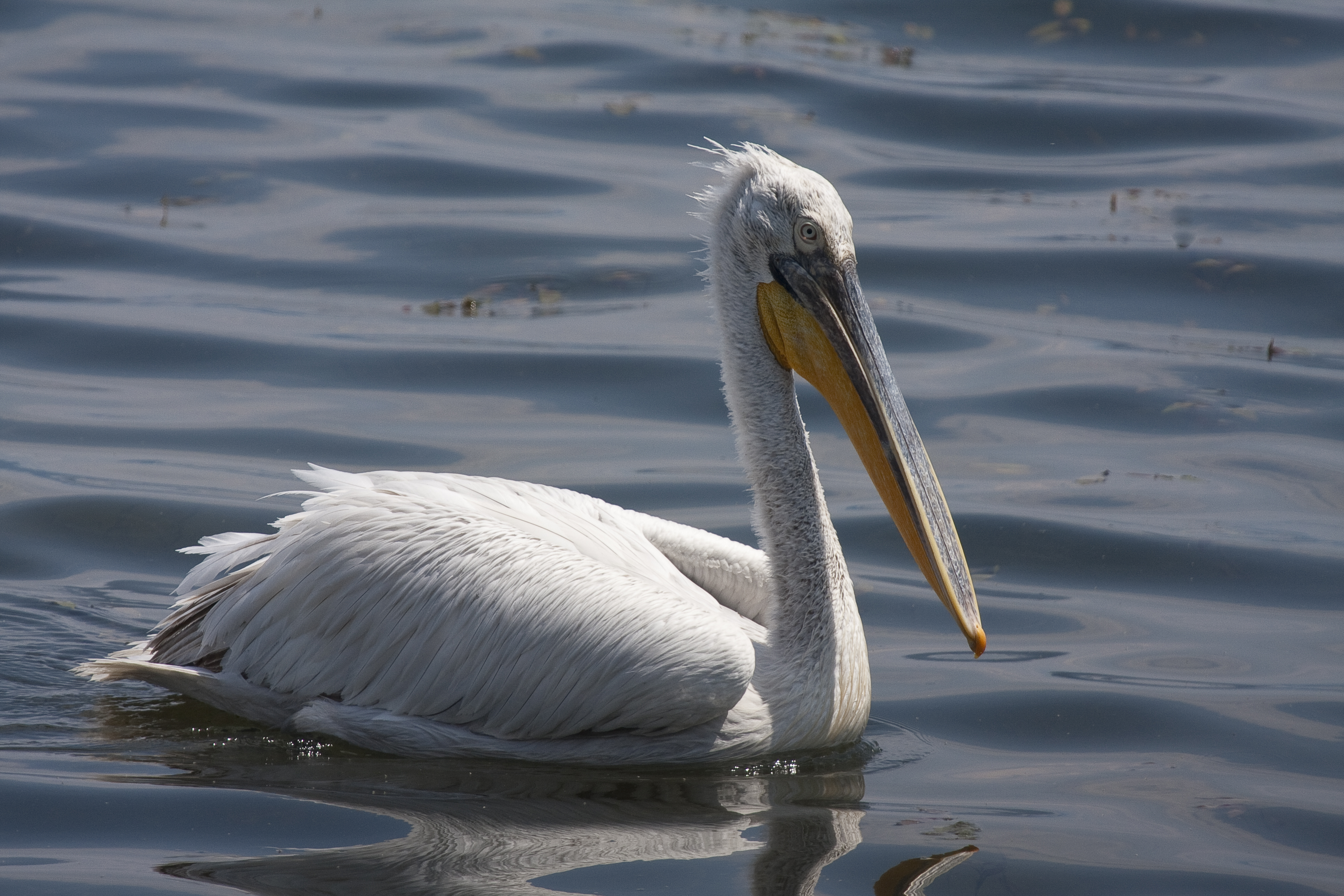 Dalmatian_Pelican_Kerkini_Lake This is a photography of Natura 2000 protected area with ID GR1260008